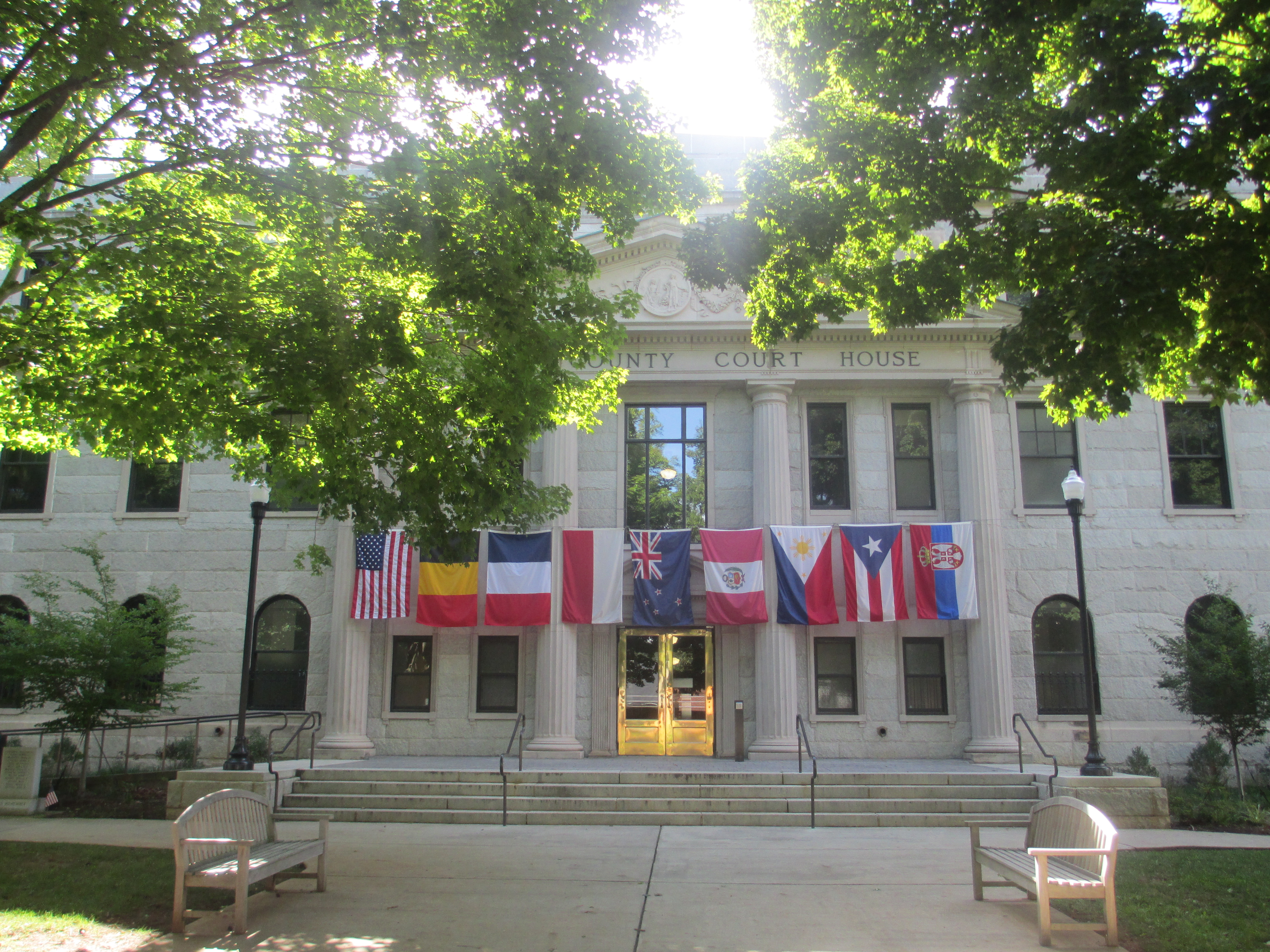 I took photo with Canon camera of Haywood County, NC, courthouse.